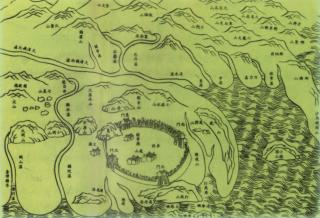 The Taiwan Prefecture from 1685 Fongshan Governance Figure